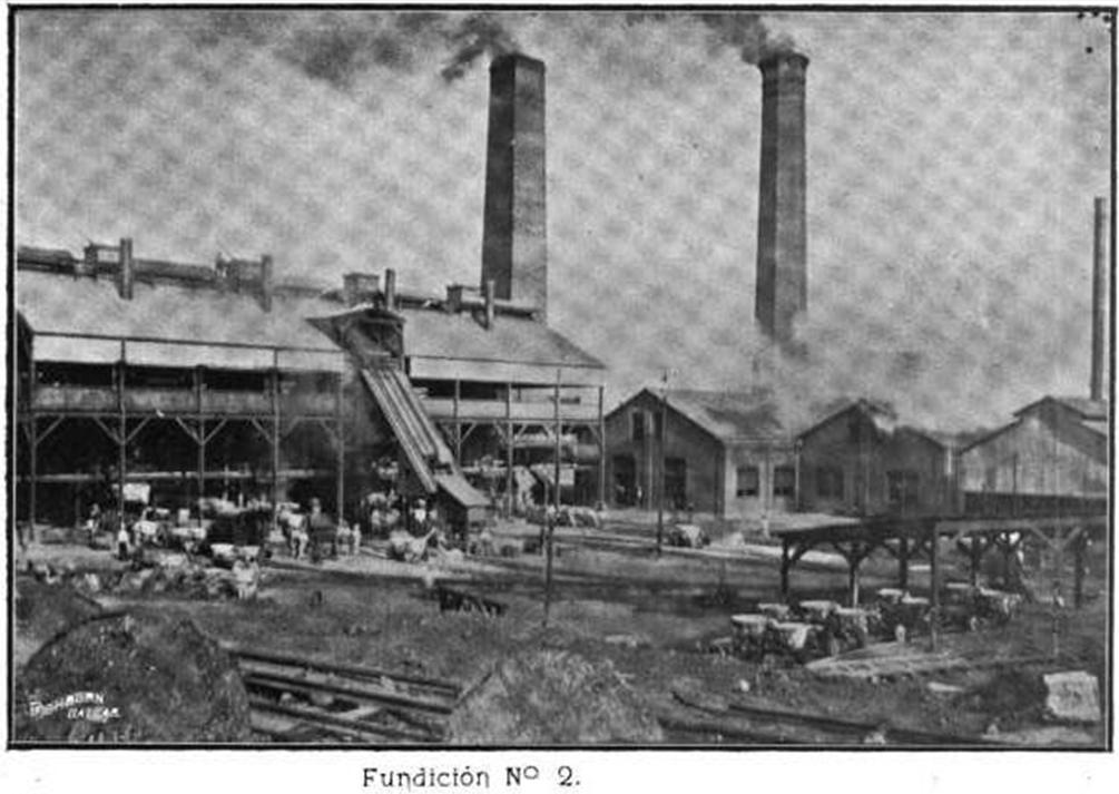 The Fundidora de Acero de Monterrey steel mill operating in 1902 — near Monterrey, México. Present day location of Parque Fundidora, a park with sculptural mill ruins and Museo del Acero (steel museum), Centro de las Artes, Monterrey Arena, Cintermex, and children's Sesame Street Park.